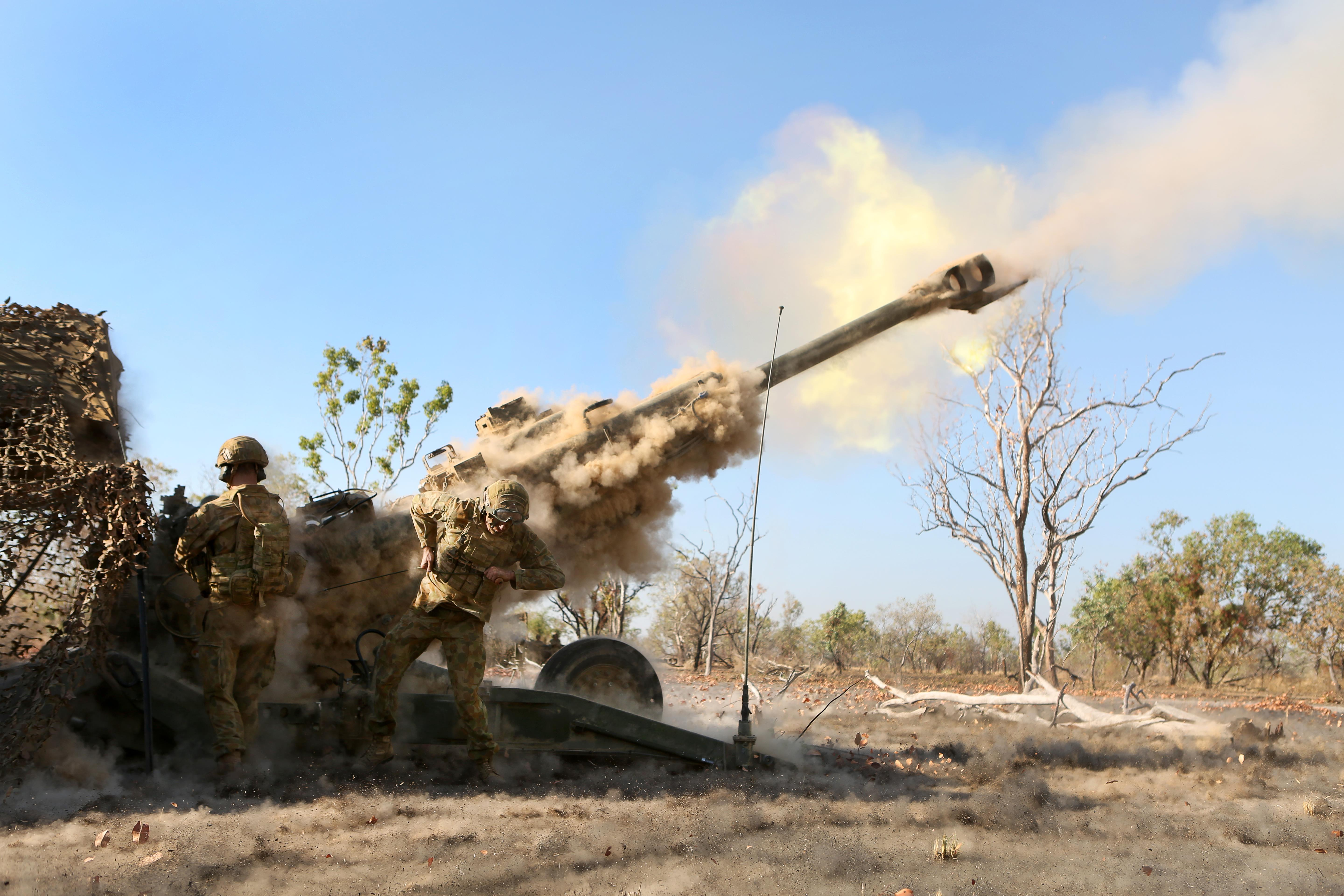 Bradshaw Field Training Area, Australia - Australian Army soldiers with 8/12 Regiment, fire a M777 Howitzer in support of U.S. Marines on the ground August 11, 2016 at Bradshaw Field Training Area, Northern Territory, Australia. The soldiers and Marines are taking part in Exercise Koolendong 16, a trilateral exercise between the Australian Defence Force, U.S. Marine Corps and French Armed Forces New Caledonia.